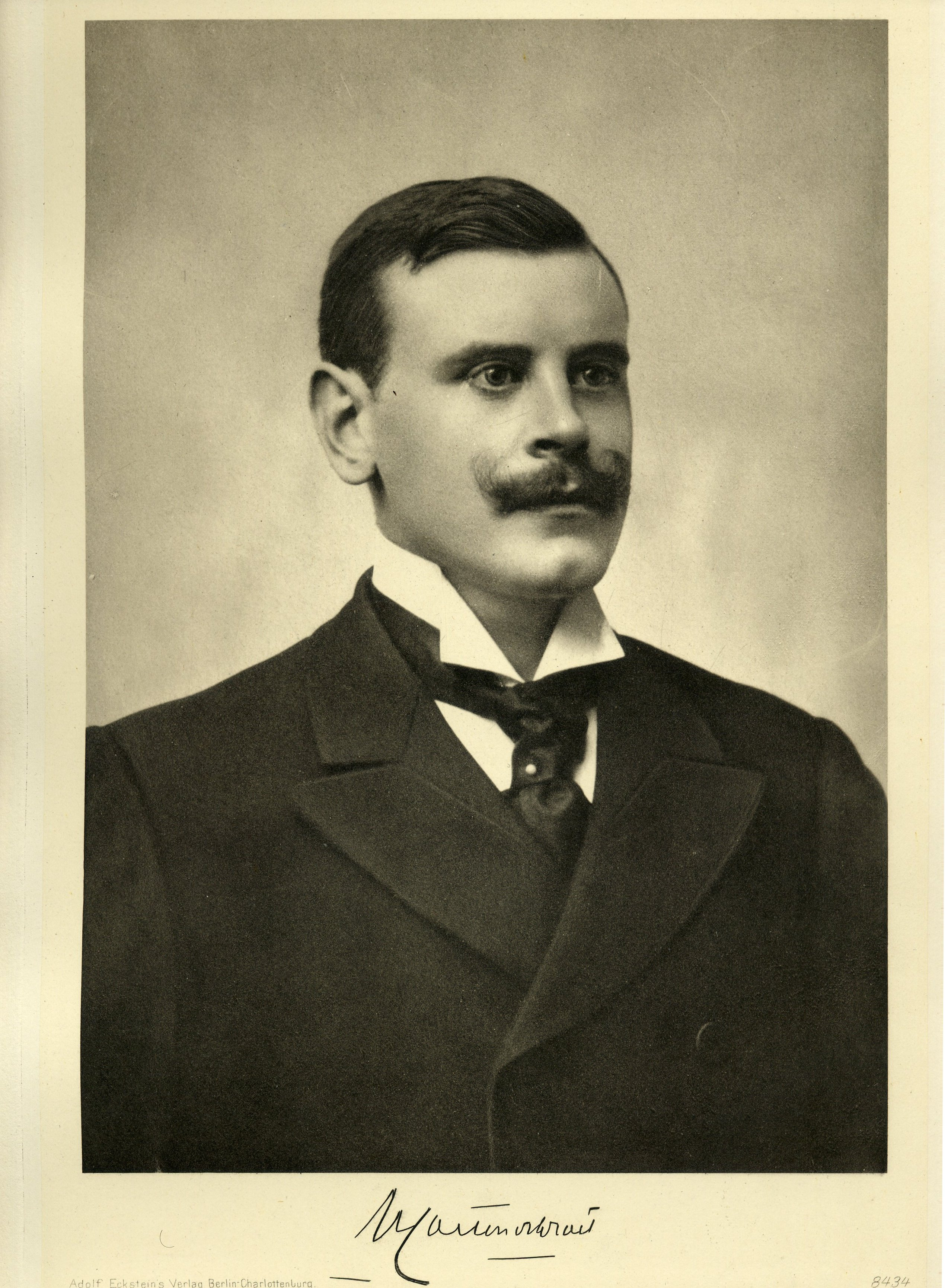 Portrait of Henri Carton de Wiart around 1900 in "La Belgique d'aujourd'hui".